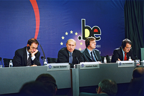 BRUSSELS. Joint news conference with the EU High Representative for Common Foreign and Security Policy (CFSP) Javier Solana, Belgian Prime Minister Guy Verhofstadt and the European Commission Chairman Romano Prodi (left to right).